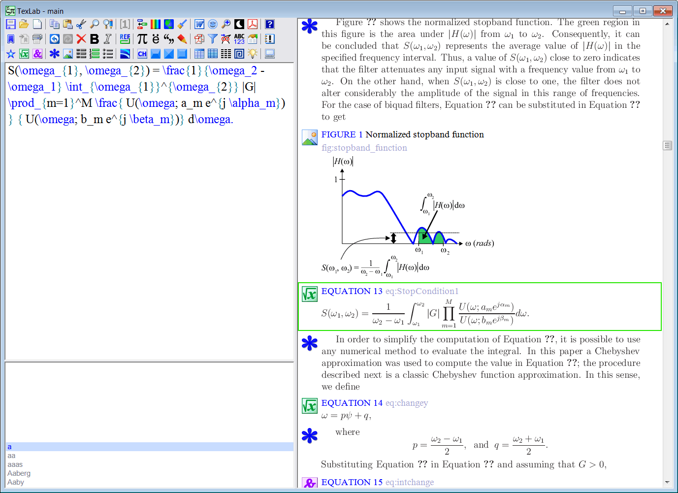 It displays the Graphic User Interface of the TeXLab software